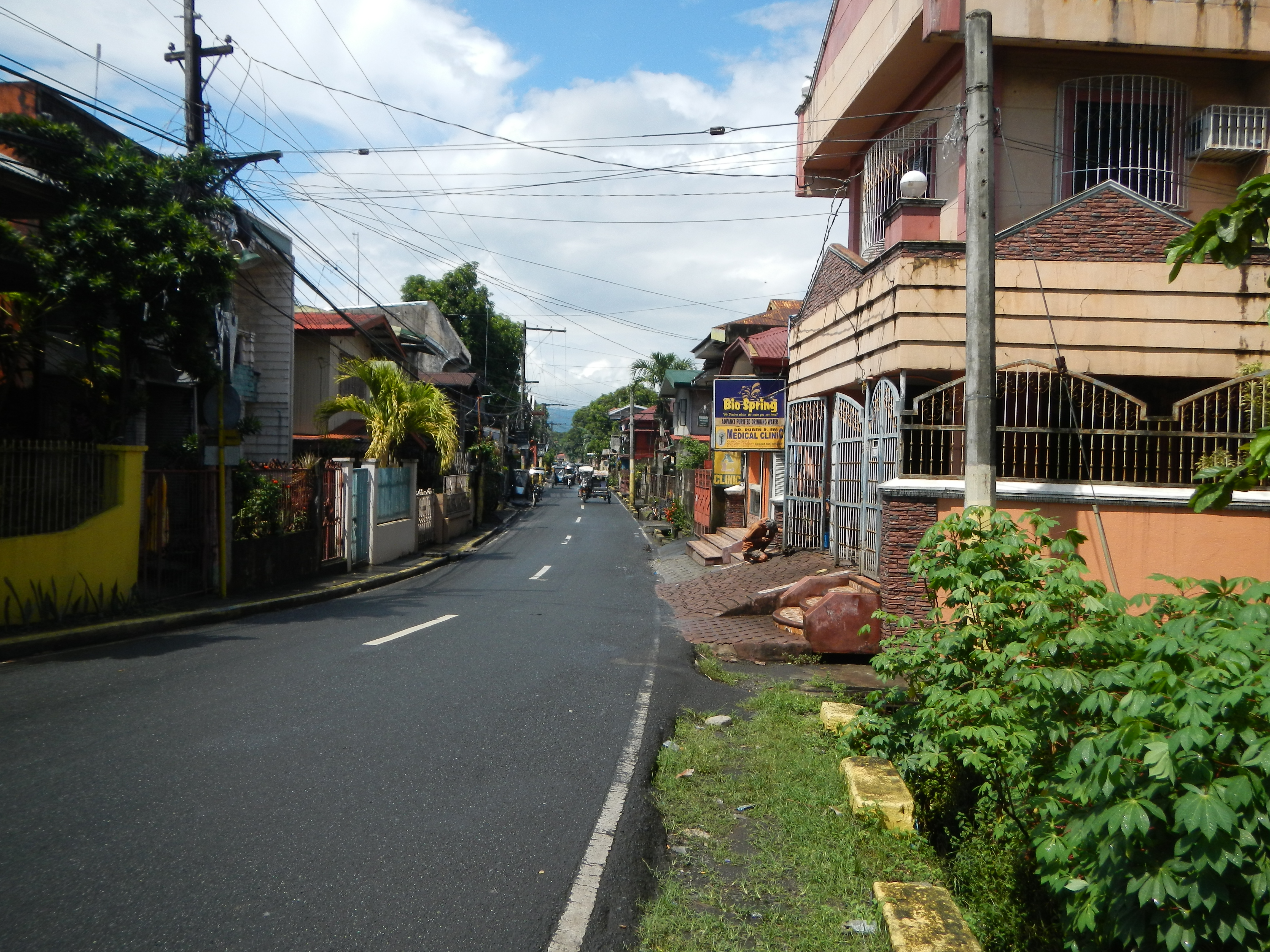 UploadWizard photos -- (General description, 3-dimension angle by angle photography of this town, church & landmarks) -- of the heritage town, its landmarks, (never ever photographed and uploaded in any site of the internet, a case of first impression in Philippine photography of - Famy, Laguna [1], specifically: the Famy River under the Paawas bridge[2], BO2483LZ STA.112+060 [3] & Boundary Sign of Barangay Buhay, Siniloan, Laguna[4] and Welcome sign of (Famy is politically subdivided into 20 barangays, a fifth class municipality in the province of Laguna, Philippines, latest census, has a population of 15,021, lies in the northeastern part of the province of Laguna[5], has a total land area of 3.297 square miles (8.54 km2).